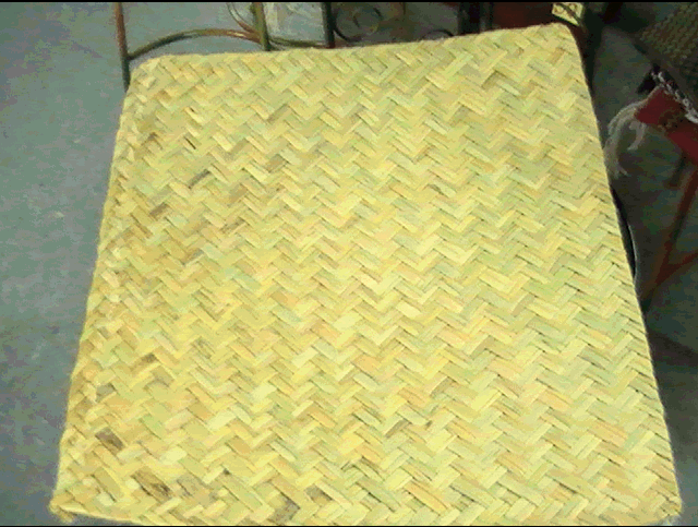 A bedroll commonly found in Latin America.